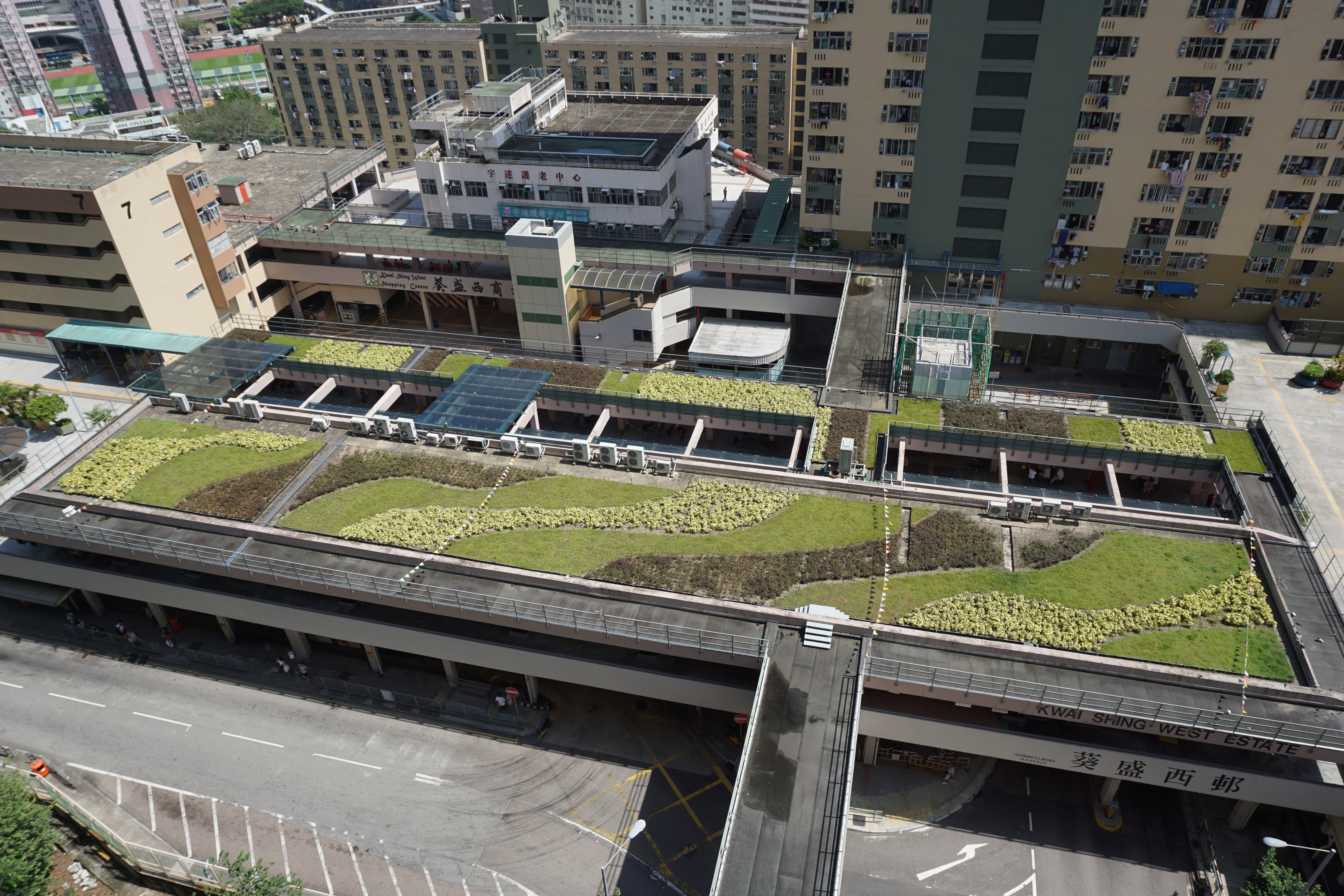 Kwai Shing West Estate in Kwai Shing, Hong Kong.